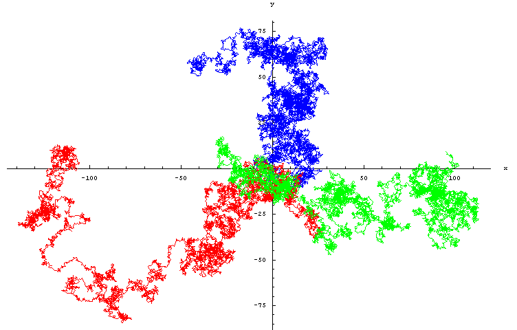 Isotropic random walk on the euclidean plane . This picture shows three different walks after 10 000 unit steps, all three starting from the origin.